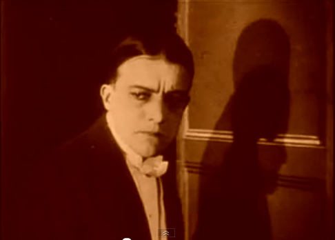 1916 screenshot of actor Édouard Mathé in the Louis Feuillade-directed film series Les Vampires